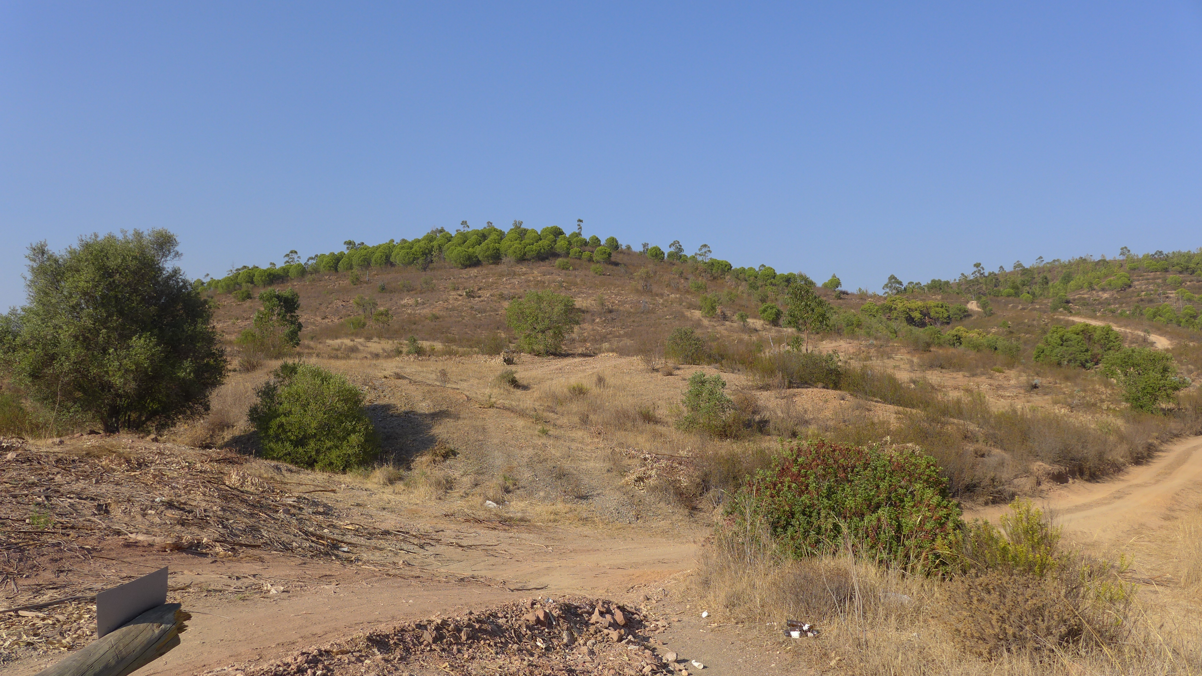 Silves, Algarve, Portugal October 2017 Habitat of Tetrax tetrax